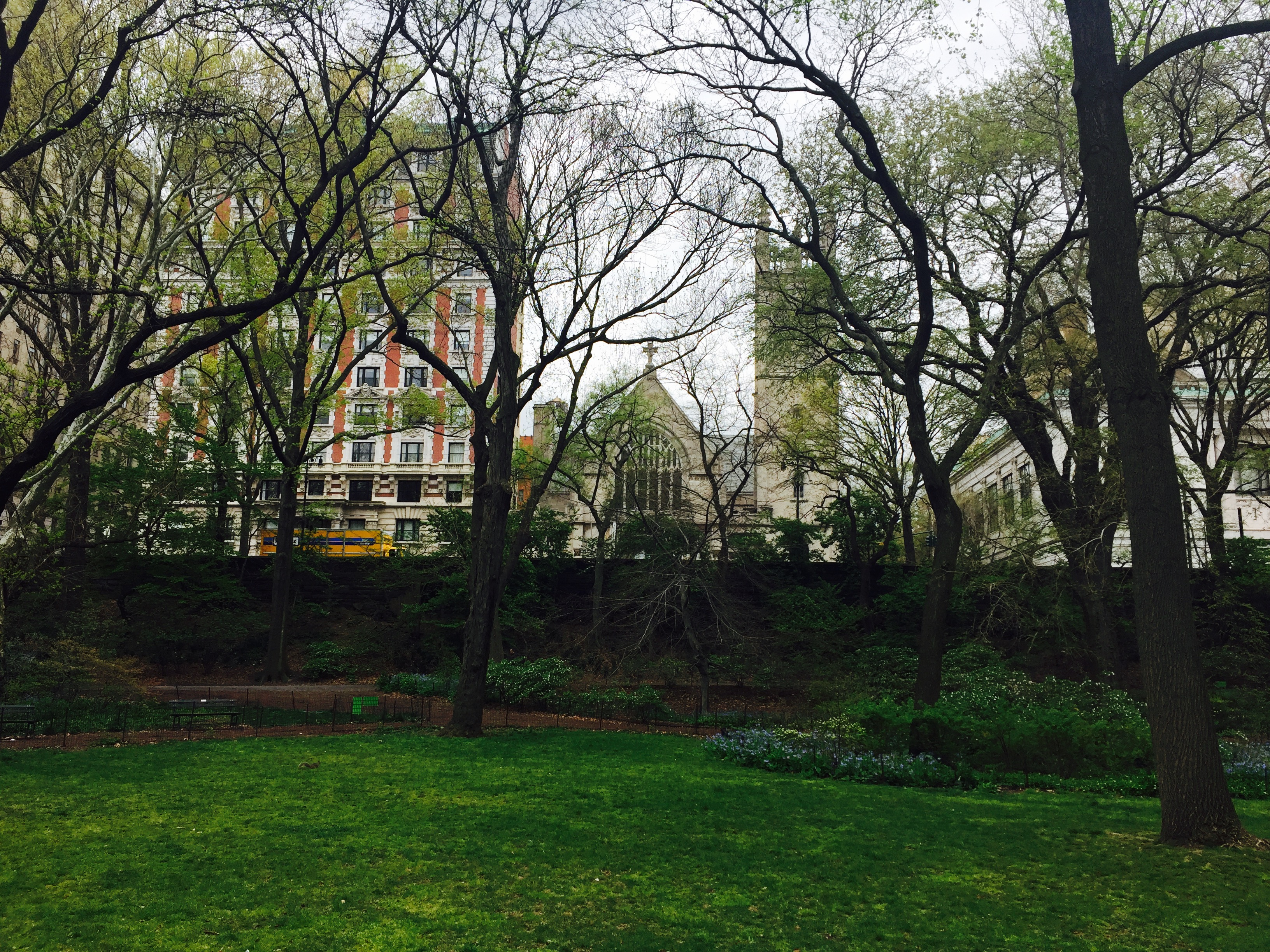 View From Central Park